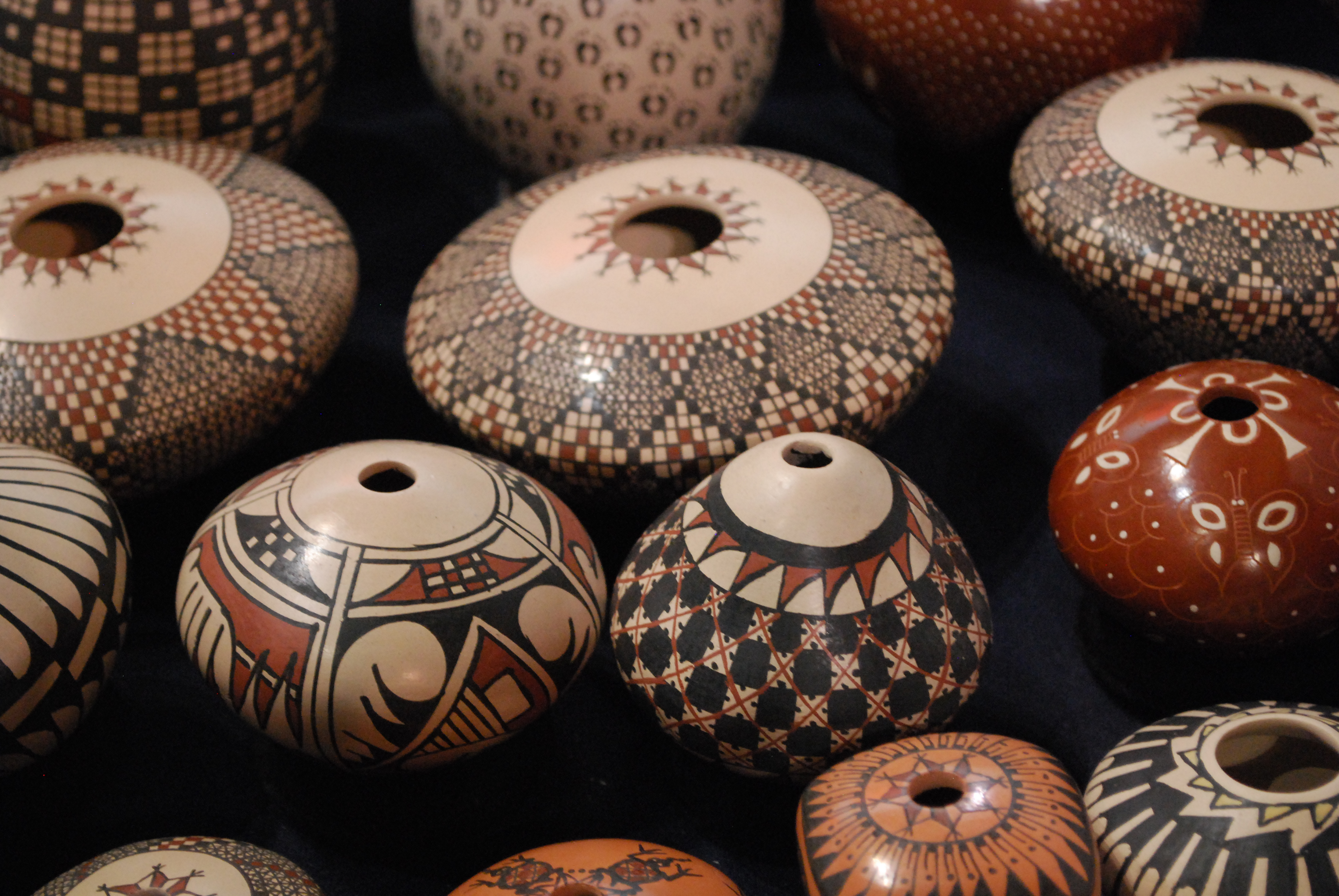 Mata Ortiz pottery from Chihuahua on display at the 2010 FONART exhibition in Mexico City